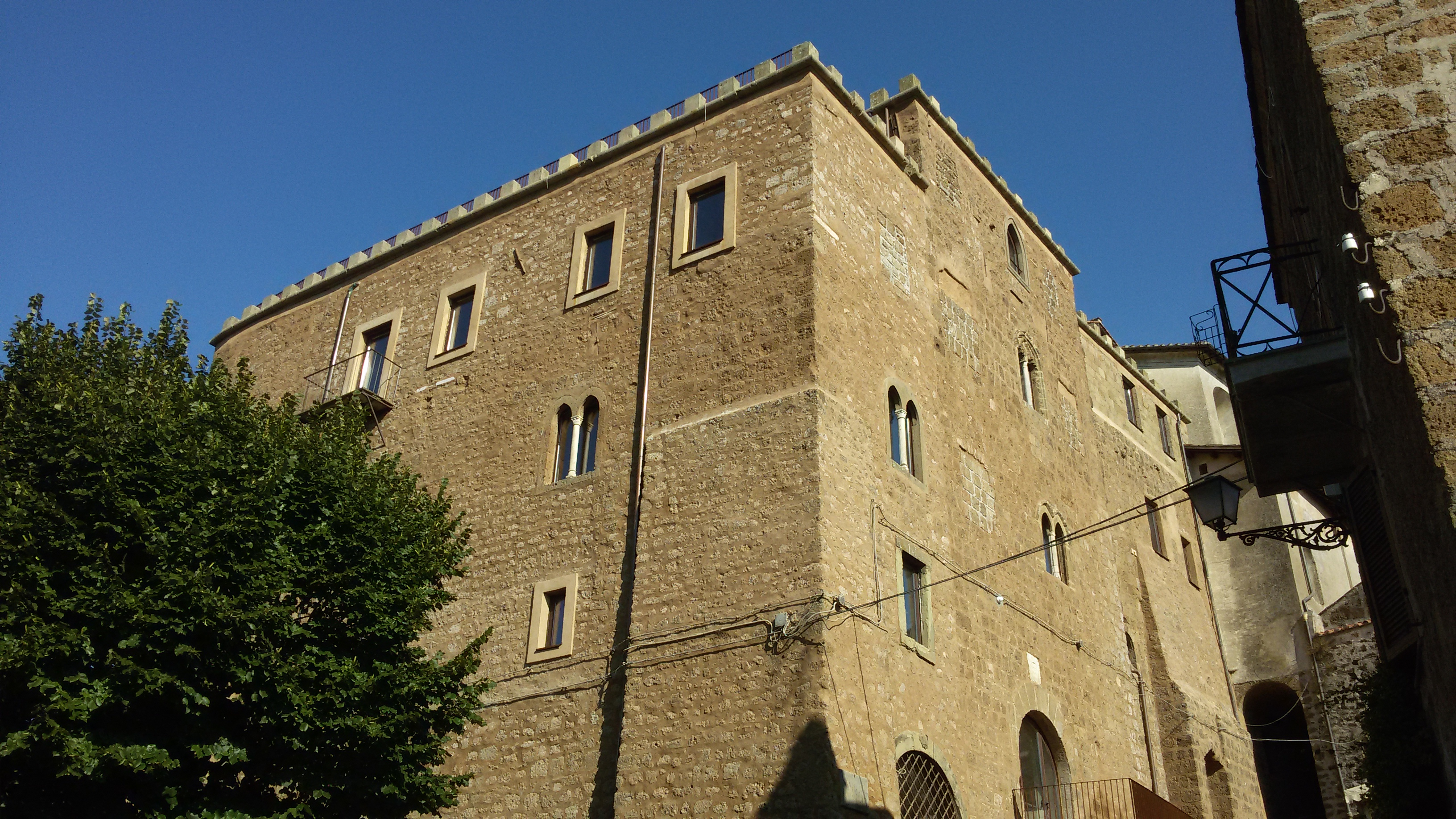 Ancient episcopal palace of Sutri.